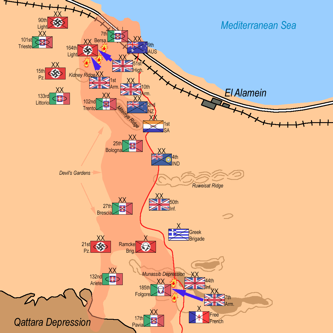 Second Battle of El Alamein: Allied 1st Armoured Division and 51st Highland Division attack German 164th Light Division: 12am- October 25th, 1942. Allied 7th Armoured Division attacks Italian Folgore Parachutist Division: 1pm- October 25th, 1942.